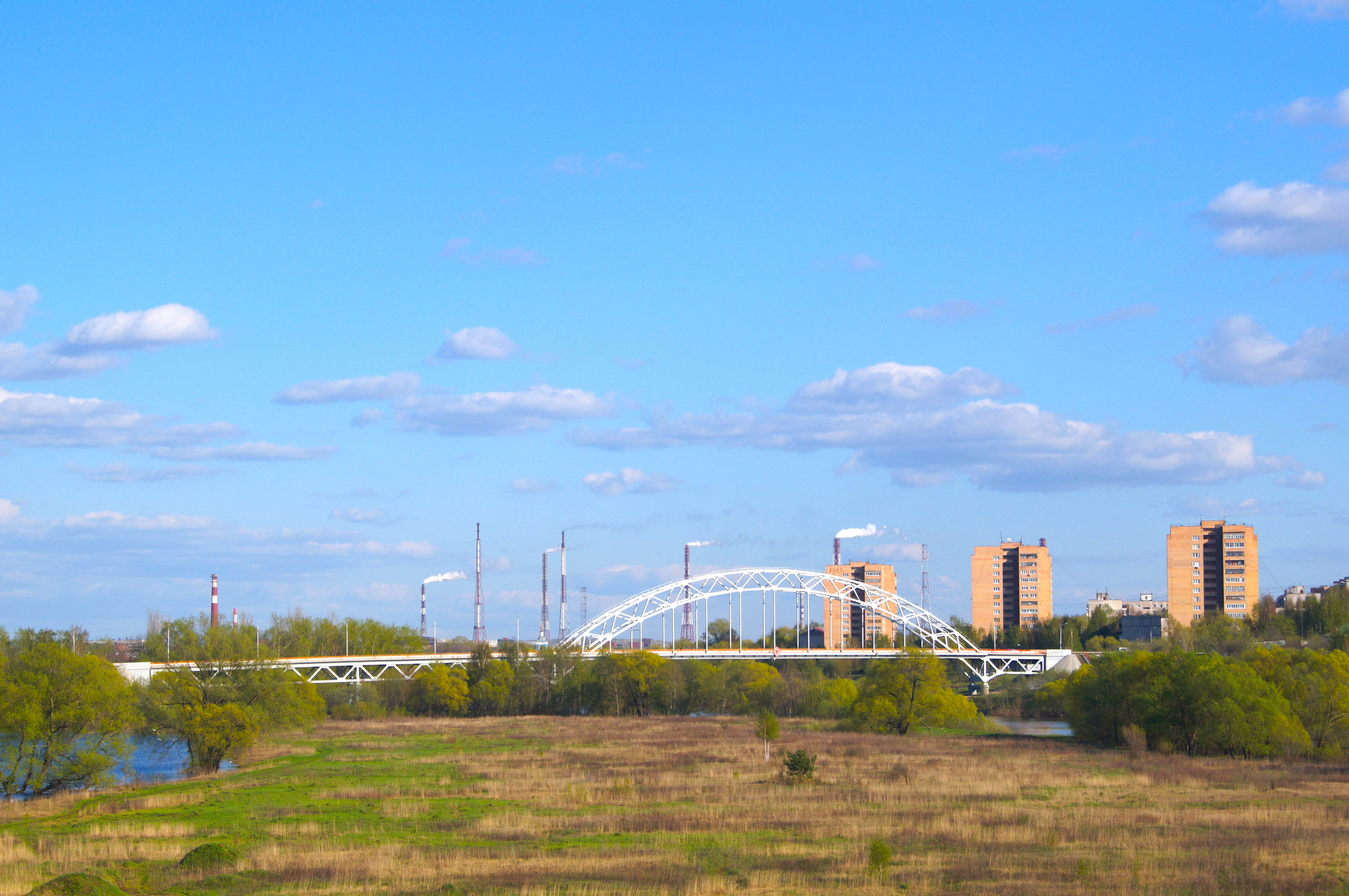 Novlyansk, Voskresensk, Moskow area